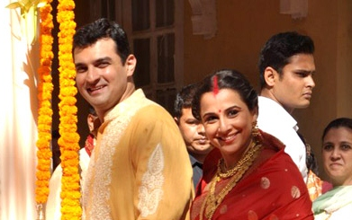 Vidya Balan and Siddharth Roy Kapur at their marriage ceremony.